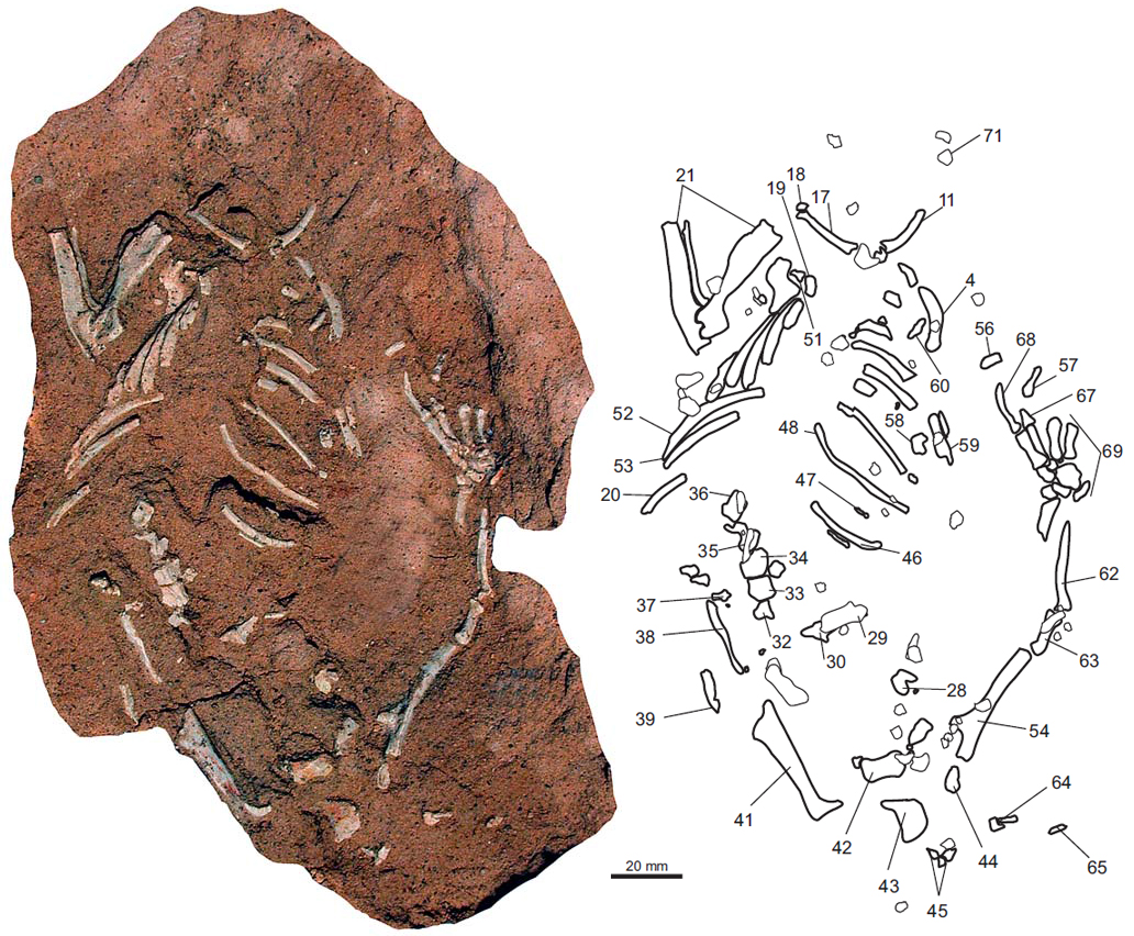 Multituberculate mammal Catopsbaatar catopsaloides (Kielan−Jaworowska, 1974),PM120/107, Upper Cretaceous, red beds of Hermiin Tsav, Her−miin Tsav I locality, Gobi Desert, Mongolia. General views of the skeleton, as preserved, before separation of particular bones. A. Dorsal view. B. Ventral view of the same, after separation of the skull and some bones. Explanation of the numbers: 1, left humerus; 2, head of ulna; 3, left scapulacoracoid; 4, ribfrom left side; 5, rib from left side; 6, rib from left side; 7, rib from left side; 8, incomplete lumbar vertebra; 9, rib from left side; 10, rib from left side; 11, leftclavicle; 12, fragment; 13, right metatarsal; 14, right metatarsal; 15, fragment; 16, incomplete lumbar vertebra; 17, right clavicle; 18, fragment; 19, frag−ment; 20, right rib; 21, right humerus, radius and ulna ; 22, left and right ilia (now missing); 23, fragment; 24, left ischium; 25, fragment; 26, fragment; 27,prepubis; 28, fragment; 29, fragment ; 30, Os cornu calcaris; 31, incomplete vertebra; 32, incomplete vertebra; 33, incomplete vertebra; 34, incomplete ver−tebra; 35, incomplete vertebra; 36, incomplete vertebra; 37, fragment; 38, right tibia; 39, ?fibula; 40, fragment; 41, right femur; 42, right pubis; 43, rightischium; 44, fragment; 45, fragments; 46, left rib; 47, fragments; 48, left rib; 49, fragment; 50, fragment; 51, fragment ; 52, right rib; 53, right rib; 54, left fe−mur; 55, incomplete lumbar vertebra; 56, phalange from left foot; 57, phalange from left foot from III; 58, fragment of rib; 59, fragments of ribs; 60, frag−ment of ?scapulacoracoid; 61, left tibia; 62, left fibula; 63, left Vth metatarsal with first phalange ; 64, fragments; 65, fragment; 66, phalanges from left footfrom IV; 67, phalanges from left foot from II; 68, phalanges from left foot from I; 69, left tarsus, proximal part; 70, right ribs and scapulacoracoid associated:71, right astragalus.